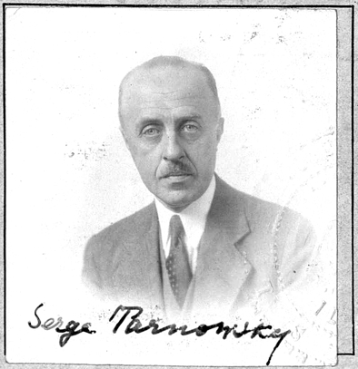 Photograph from Declaration of Intention, Naturalization Record